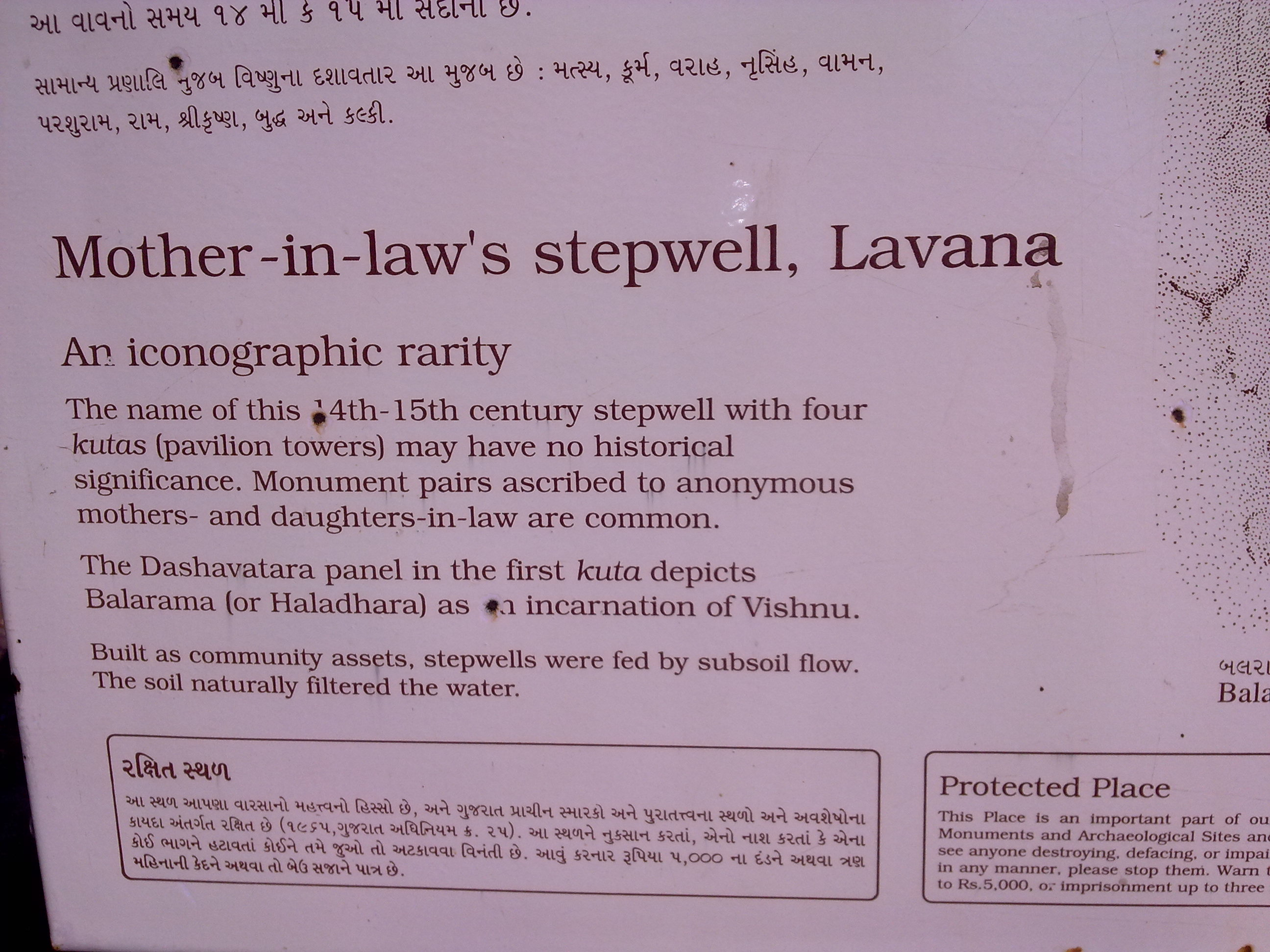 Sasu Ni Vav